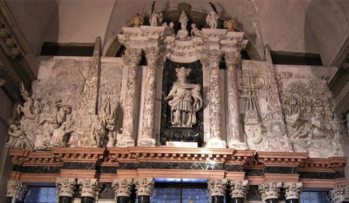 Monument to Alvise Mocenigo in church of San Lazzaro dei Mendicanti, Venice.